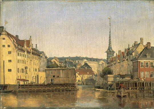 The Børsgraven dock where Slotsholmsgade is today on Slotsholmen in Copenhagen, Denmark